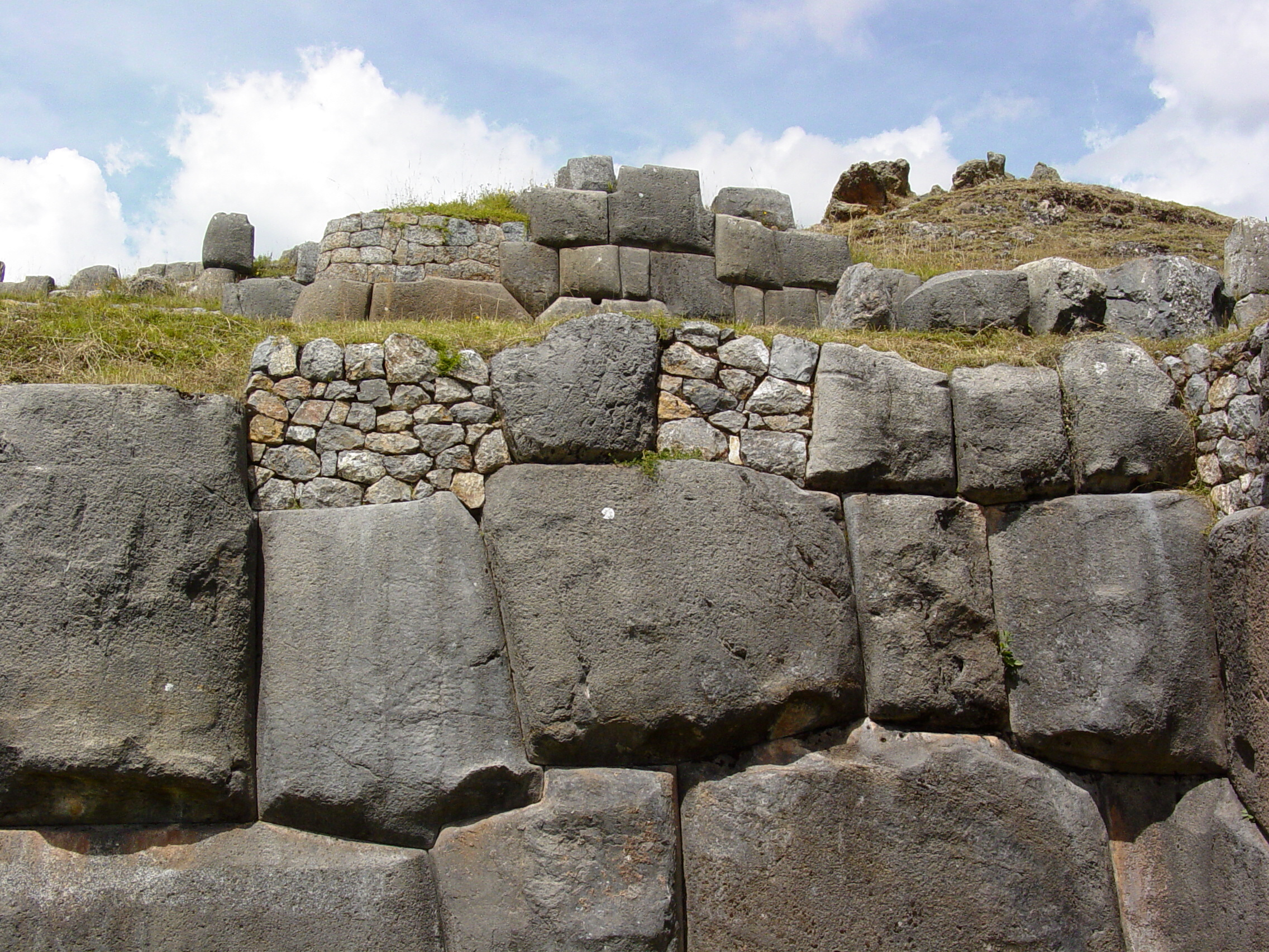 Inca Stone Architecture - Sacsayhuaman - Peru 01